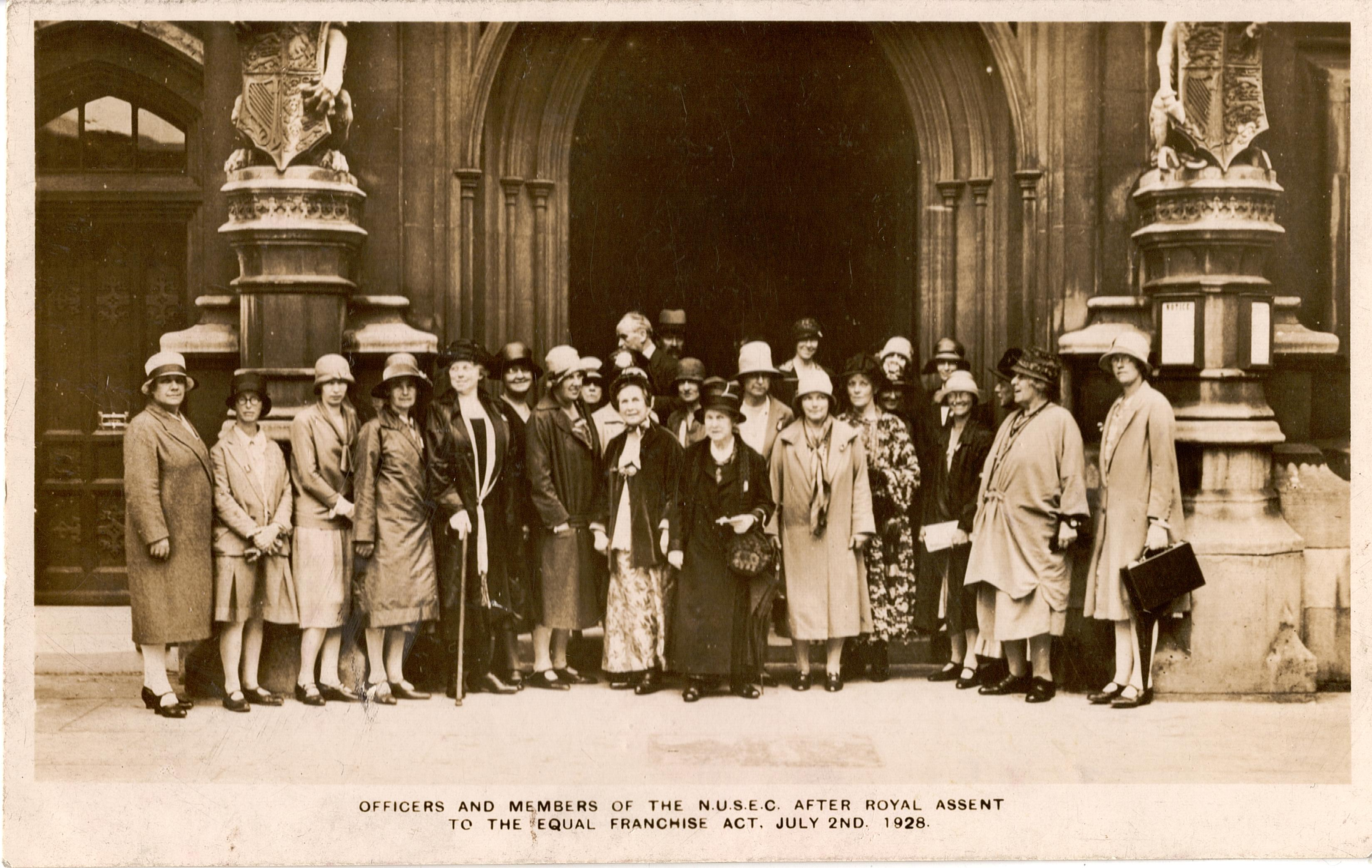 The group includes Millicent Garrett Fawcett, Ray Strachey, Philippa Fawcett, Agnes Garrett, Chrystal Macmillan, Miss Macadam, Catherine Marshal, Miss Courtney, Miss Ward. TWL 2002 328